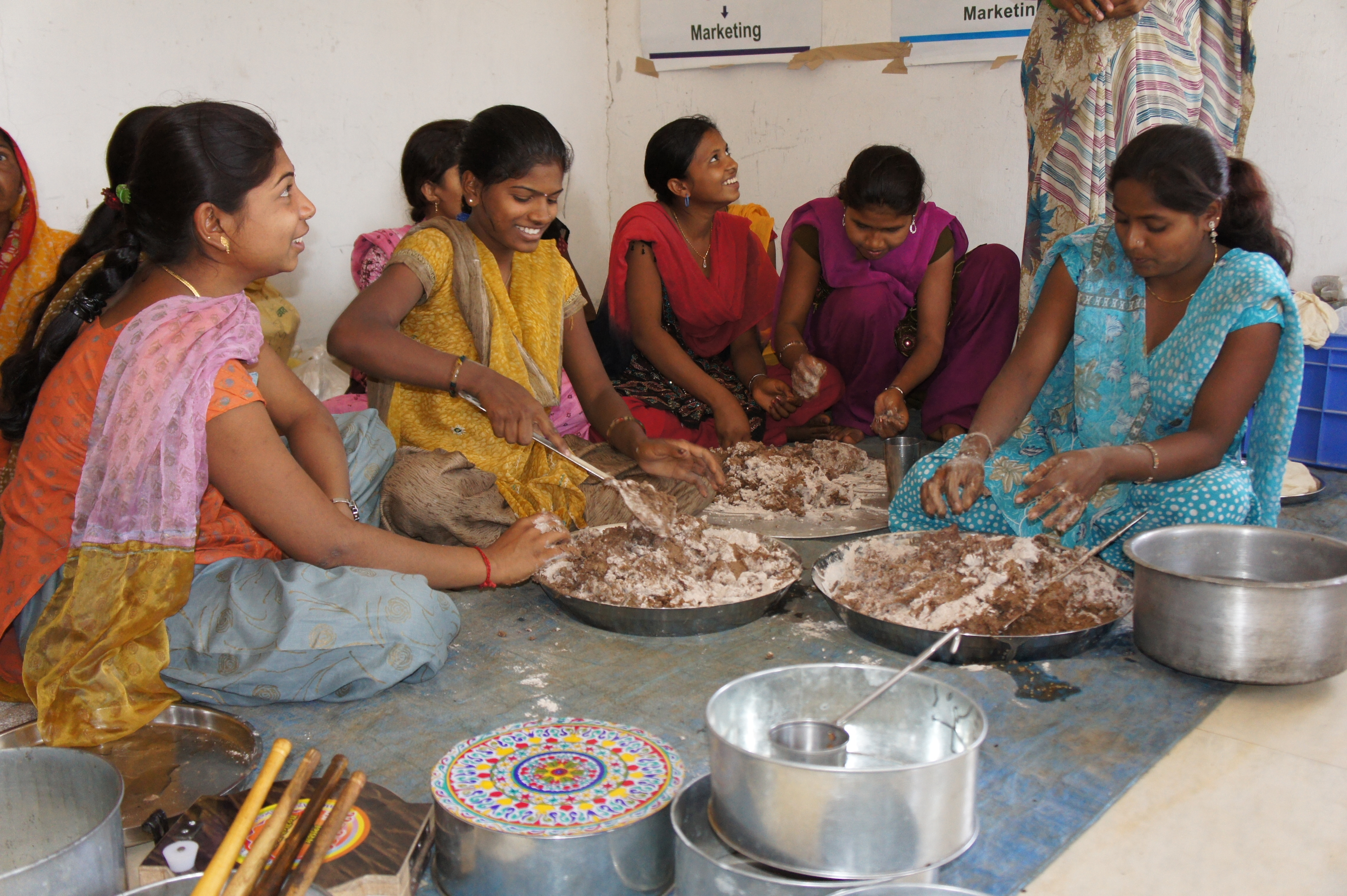 Tribal women from a self-help group of Sutarpada Cooperative, Gujarat, India, preparing pappad from the flour of locally produced finger millet (Eleusine coracana).